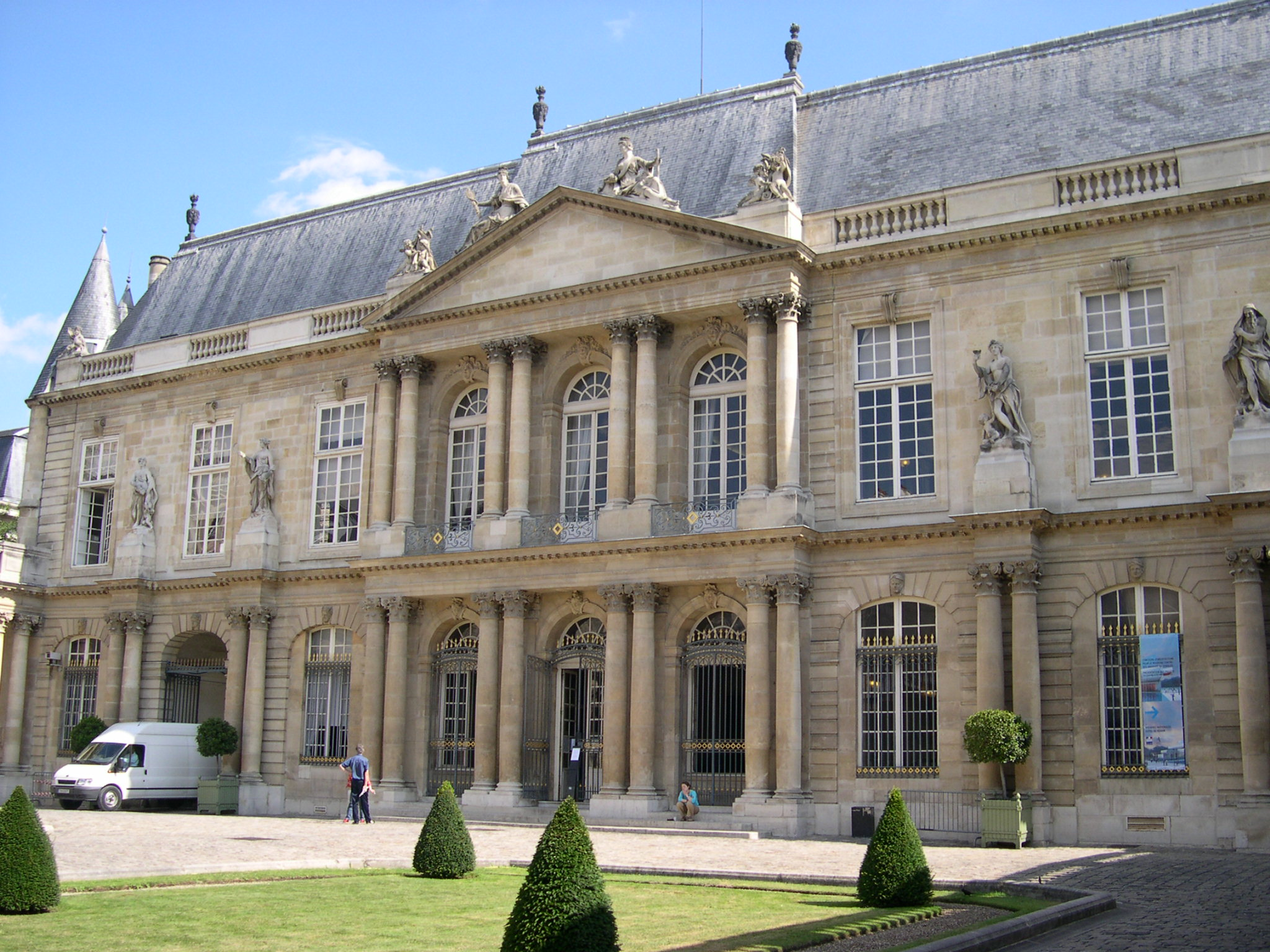 Archives Nationales main building in Paris, France